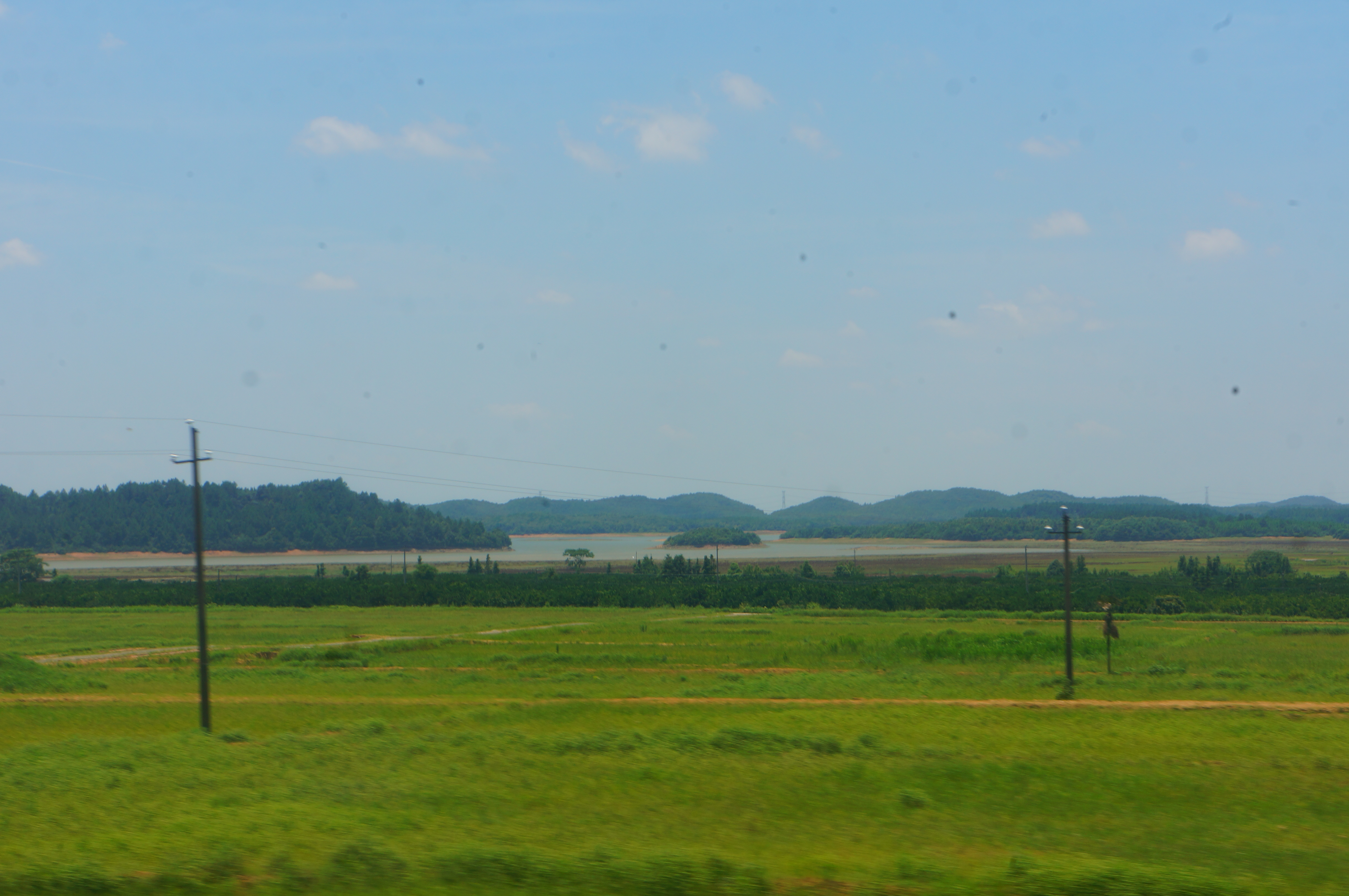 201806 Yingshiling Reservoir